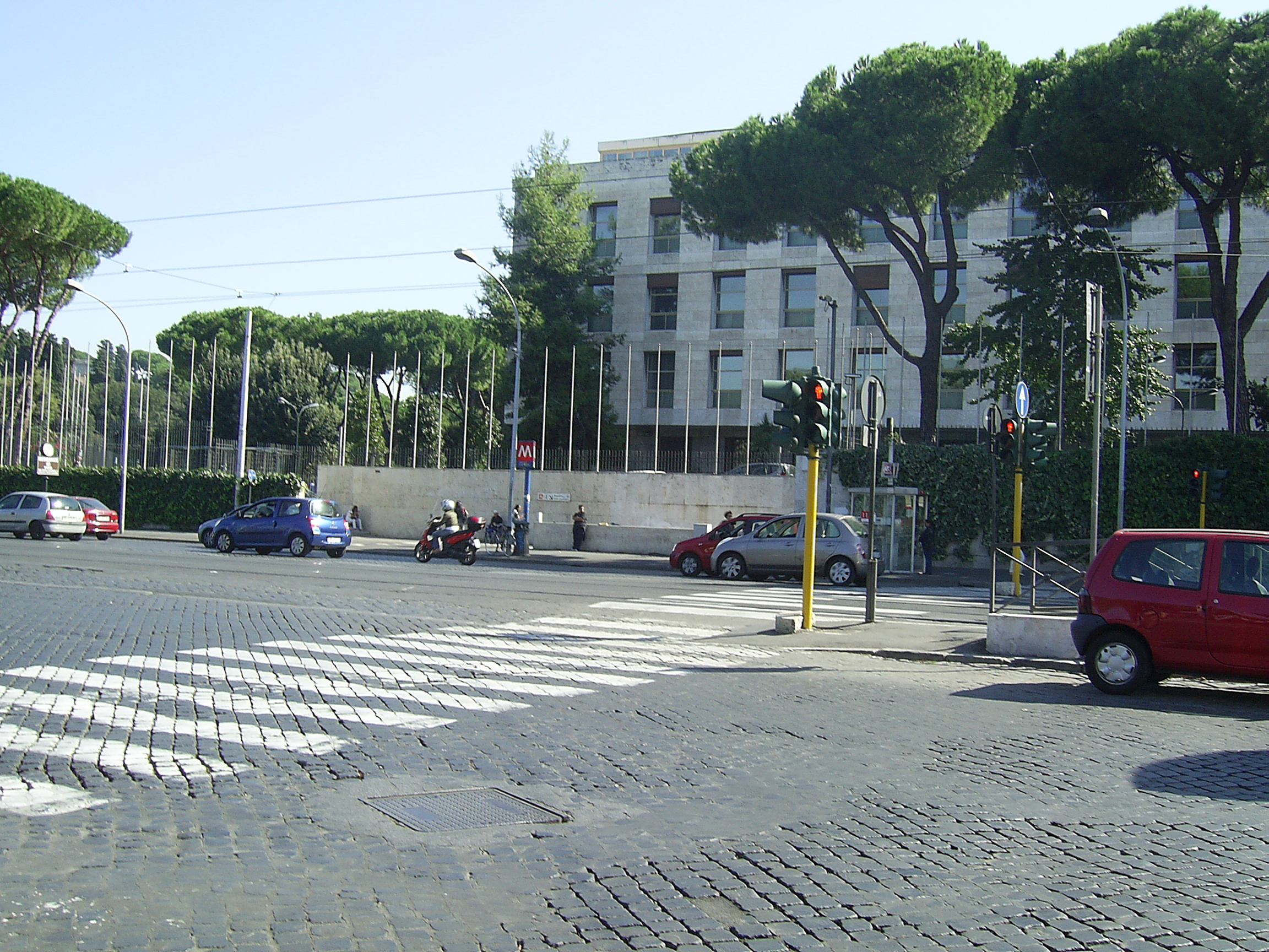 Circo Massimo stop entrance, direction Laurentina